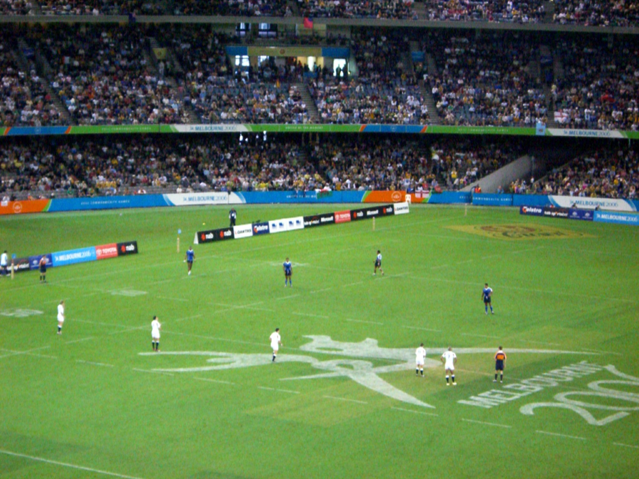 England vs Samoa at the Commonwealth Games in Melbourne (from flickr)